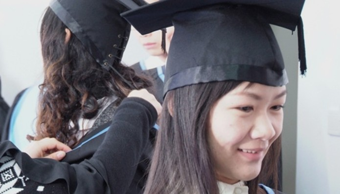 A photo of Chinese graduates wearing lace-up mortarboards. Distributed publicly.